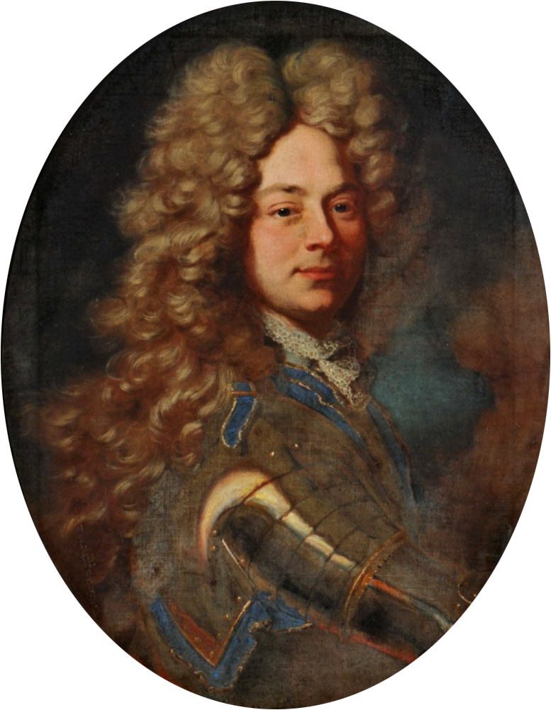 Portrait of Johann Wilhelm von Sachsen-Gotha-Altenburg (1677-1707)